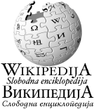 Logo of Serbo-Croatian Wikipedia